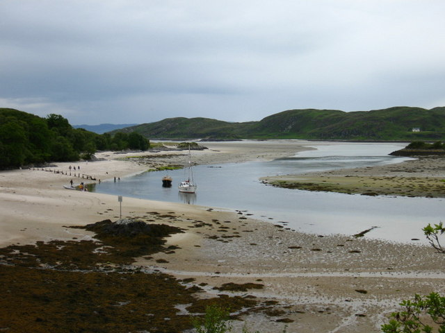 Morar Estuary. Fed by River Morar that at quarter of a mile long is the shortest river in the UK. River Morar begins at Loch Morar which is over 1000 feet deep and is Scotland's deepest loch.